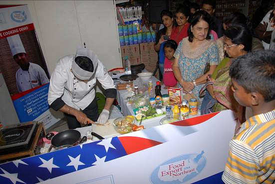 Chef Sachin Subbaiah of India prepares a salad during a live cooking demonstration at SPAR Hypermarket in Bangalore, India, as part of the U.S. Food and Beverage Independence Festival. The festival was the first multi-retailer U.S. food and beverage promotional campaign held throughout cities in India from June 29 to July 22.